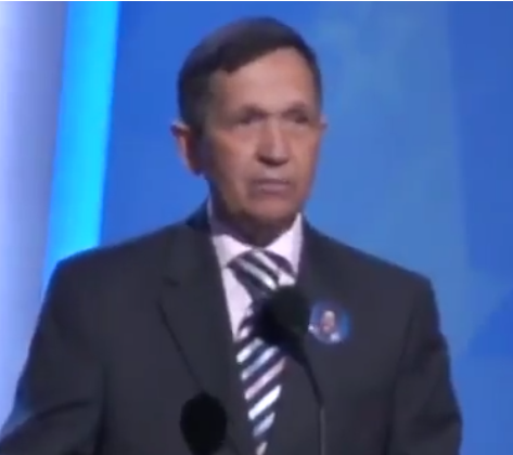 Kucinich